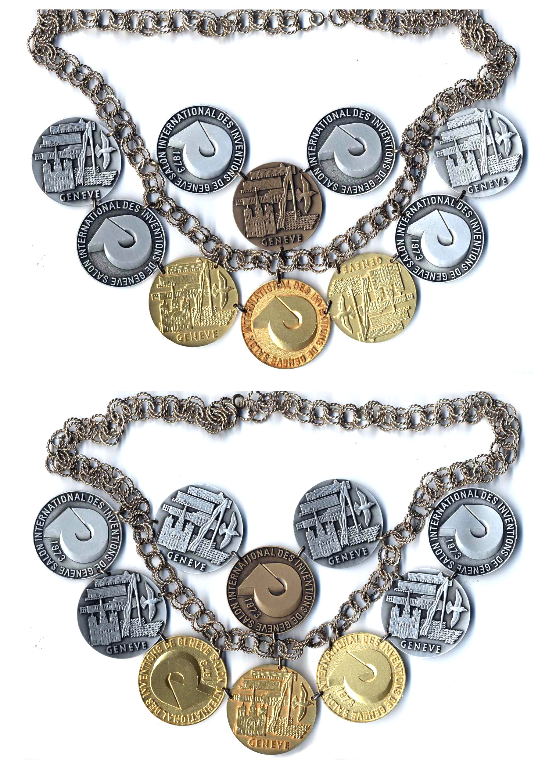 Medals of Josef Richard Kaelin of the International Exhibition of Inventions in Geneva